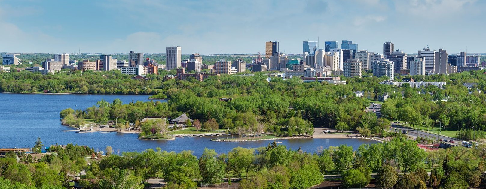 Regina downtown from the south. June 2016